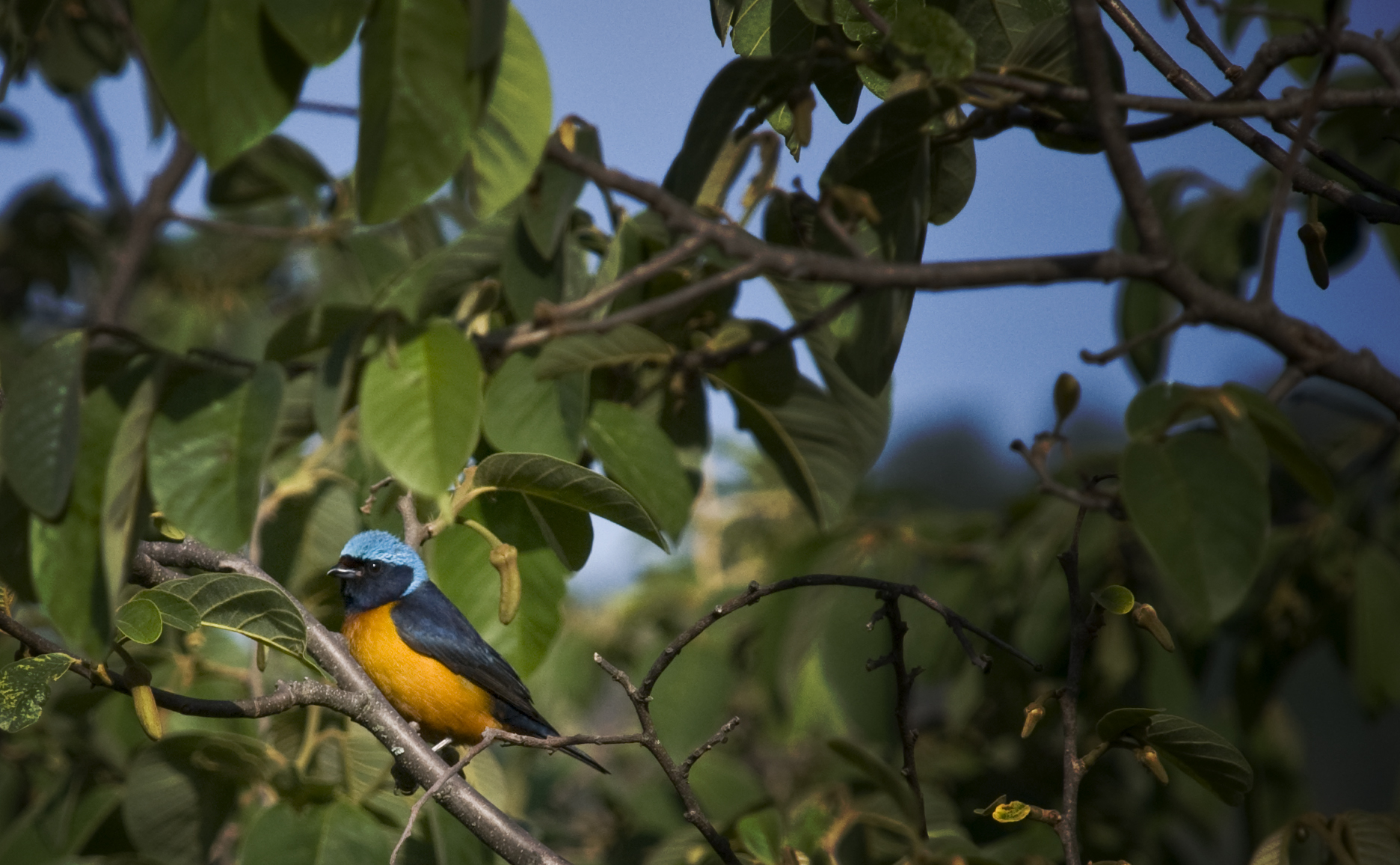 Euphonia elegantissima, Mexico City.